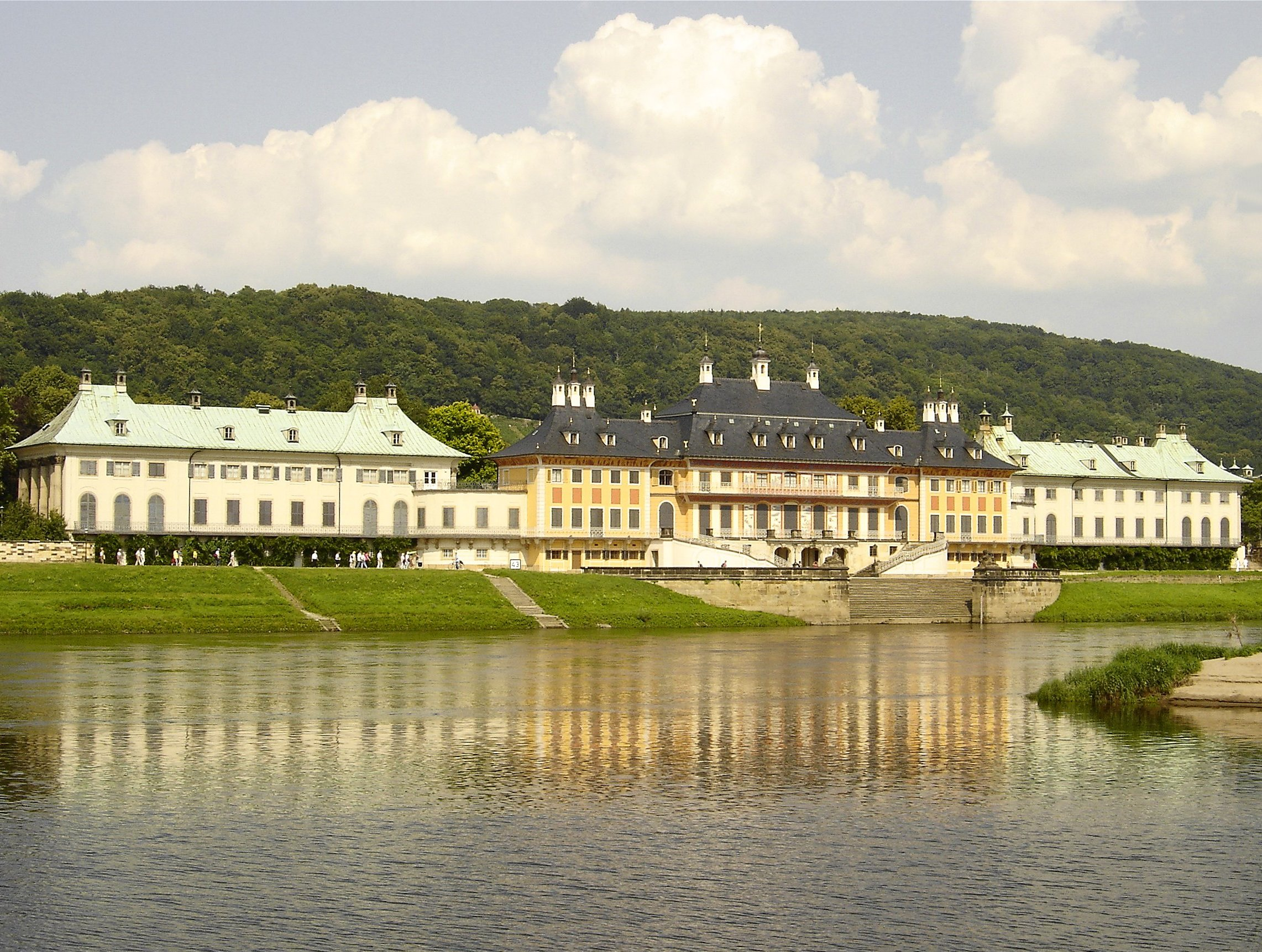 castle of pillnitz in long shot